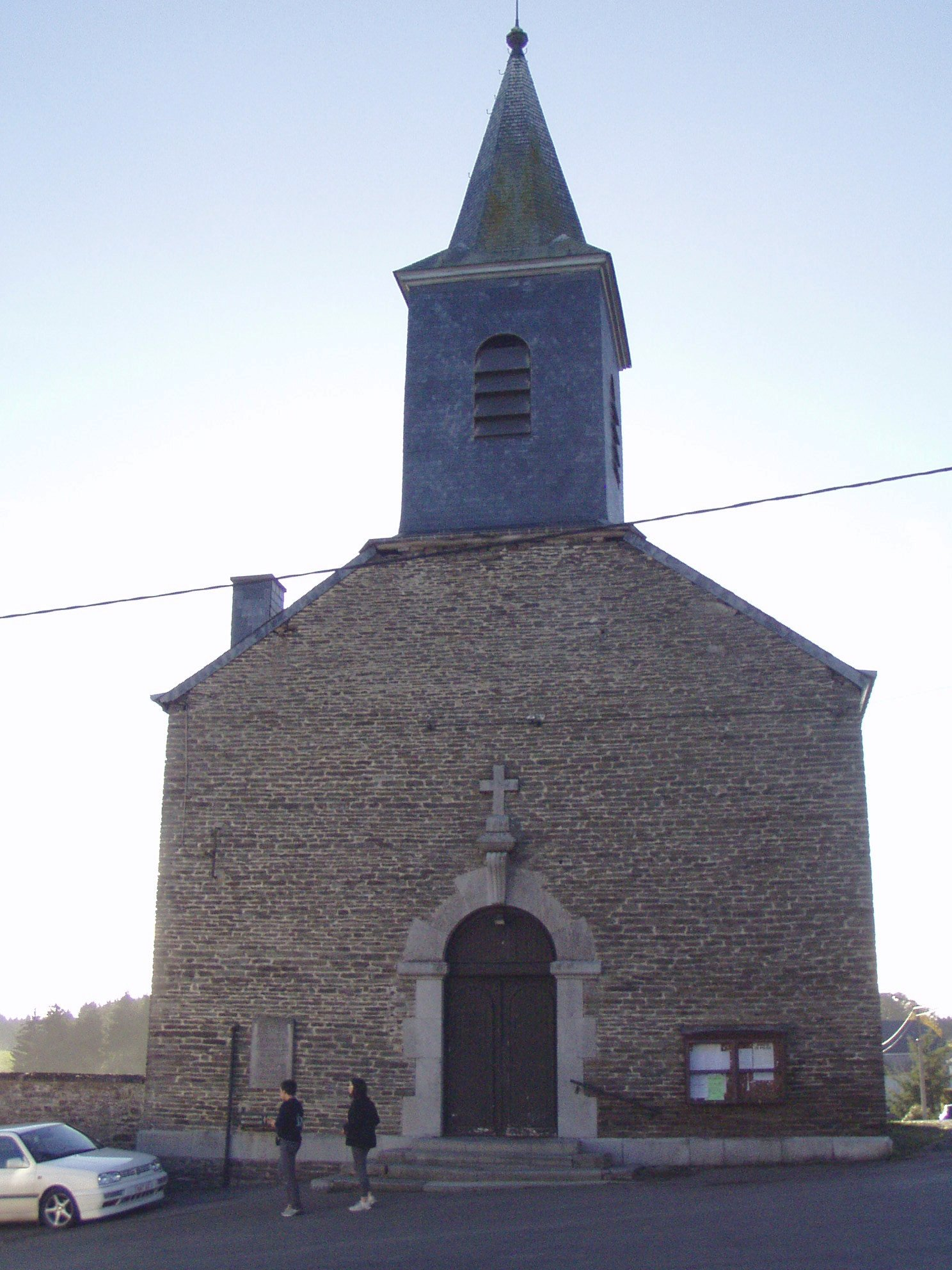 Ucimont church (Belgium)